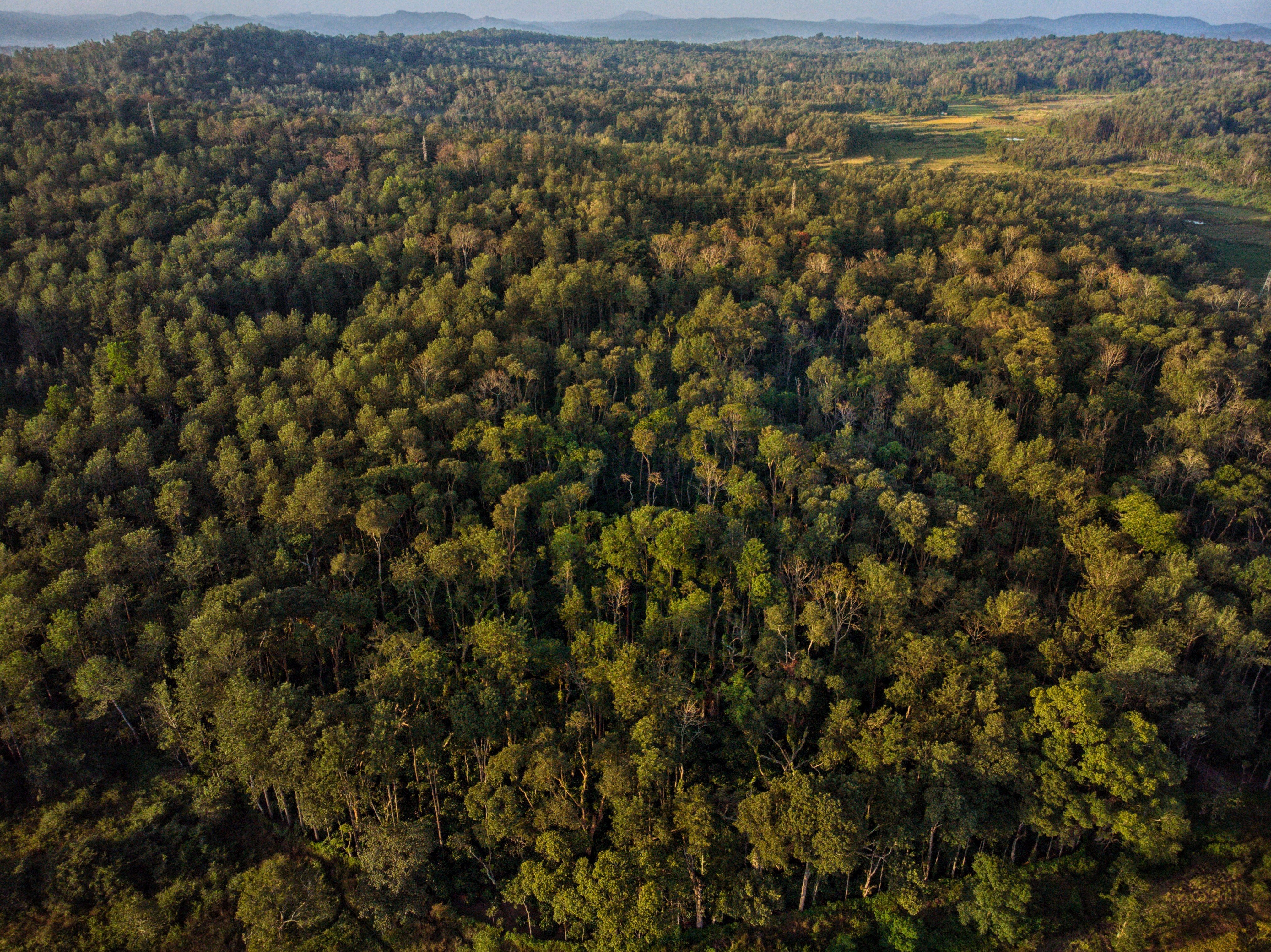 Aerial view of Greenery in Maldenad, Coorg